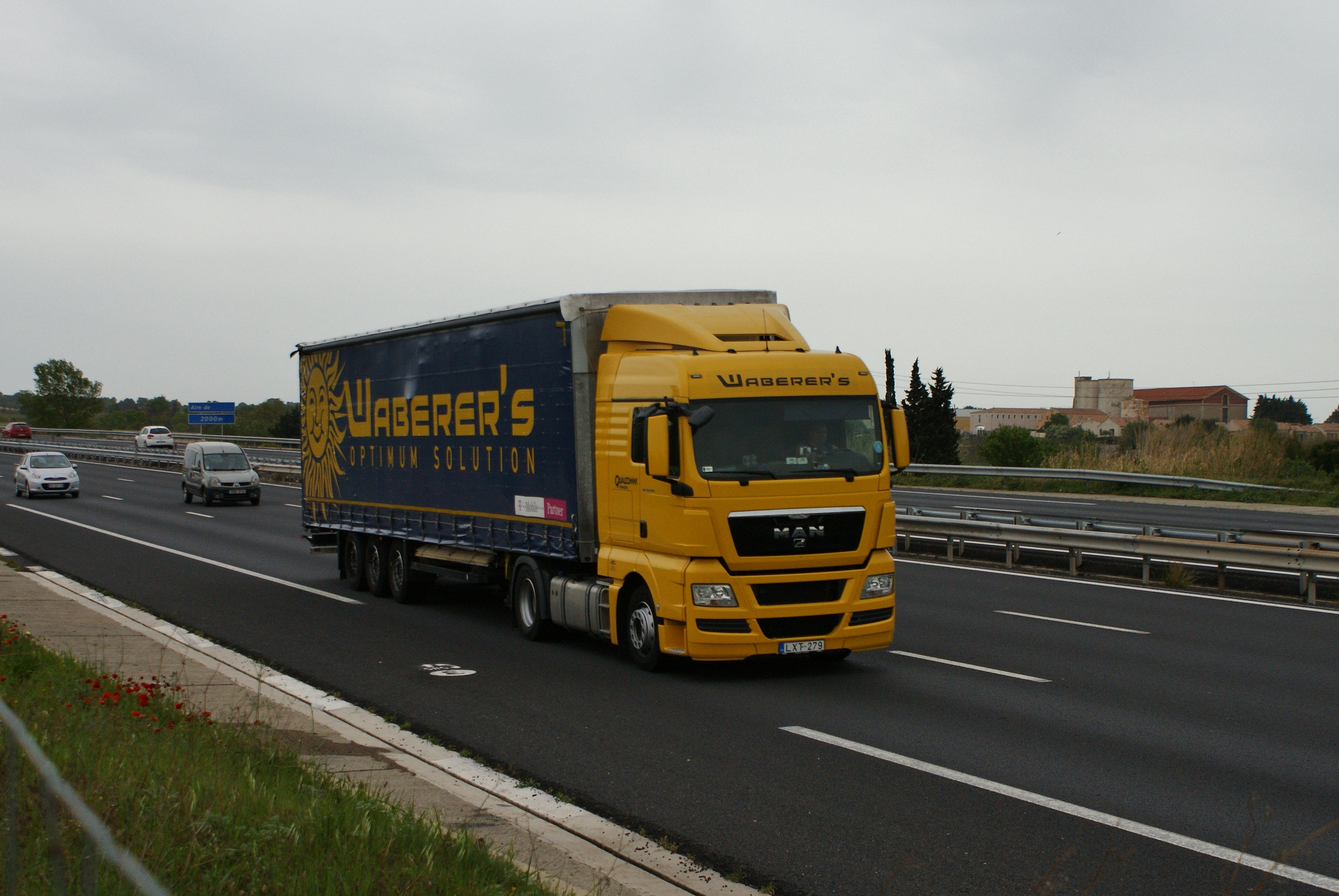 Waberer's MAN